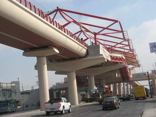 Anahuac Station of the Monterrey Metro Line 2 during construction — in San Nicolás de los Garza.